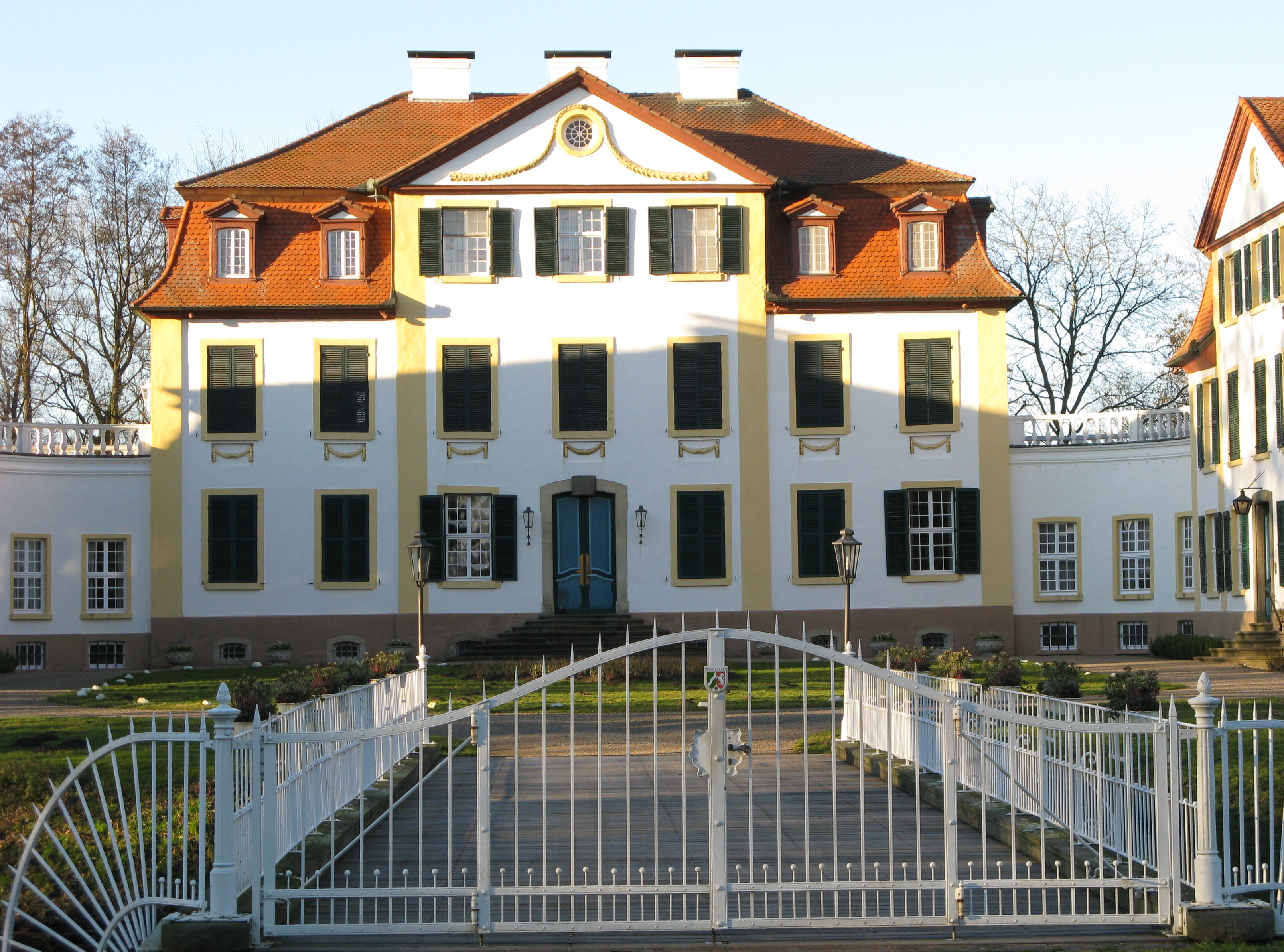 This is a photograph of an architectural monument. It is on the list of cultural monuments of Preußisch Oldendorf